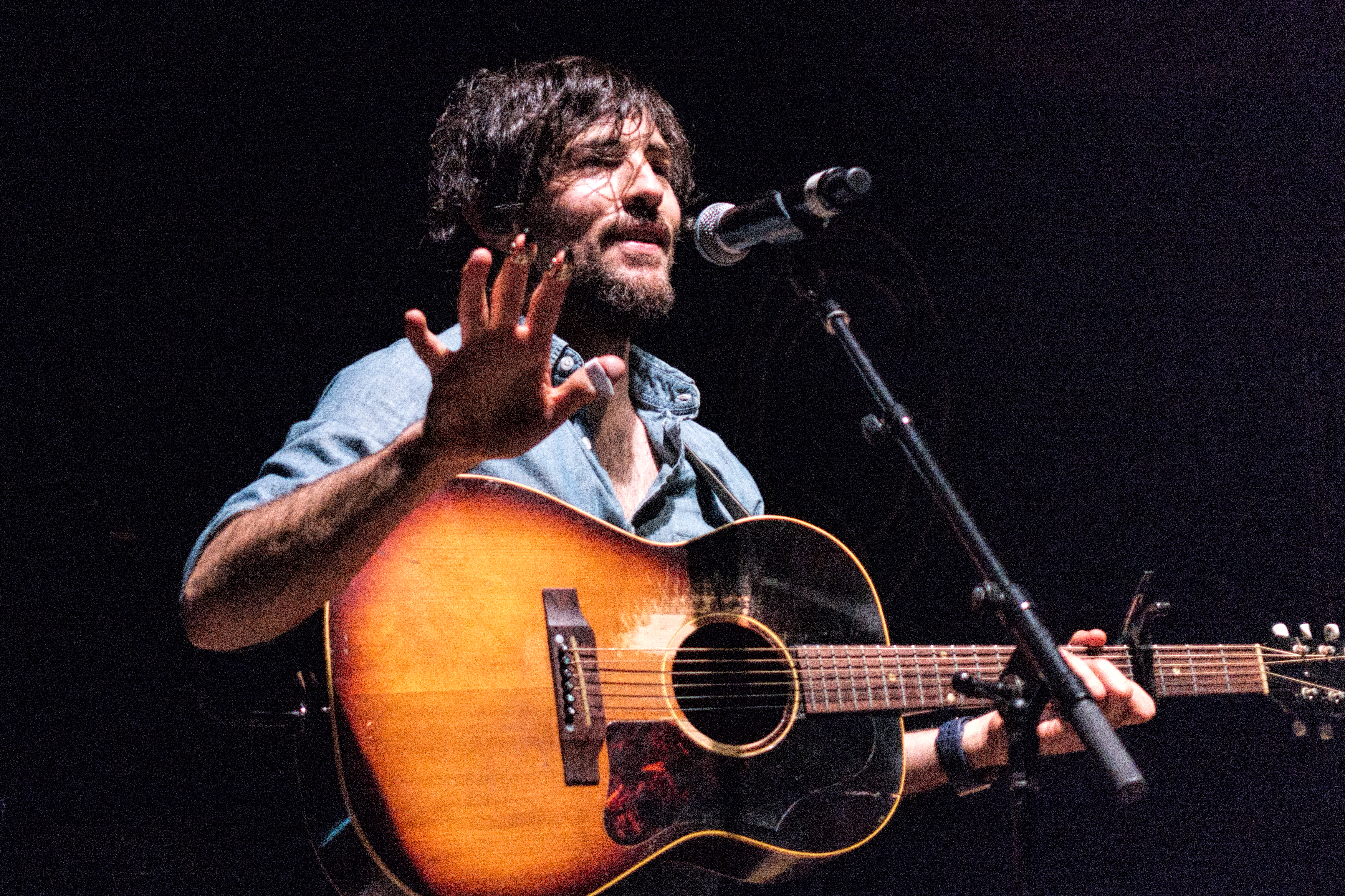 Scott Avett with an acoustic guitar at the Chicago Theatre on November 10, 2017.